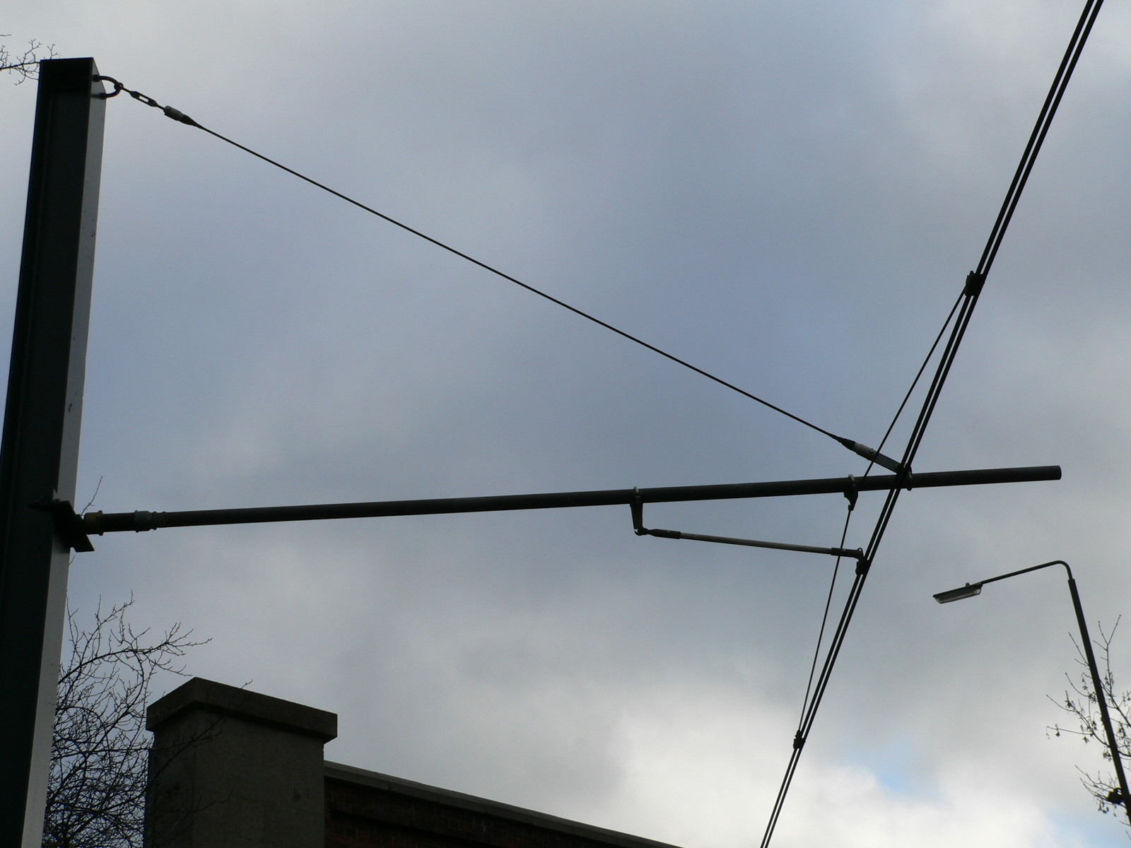 The top of one of the OHLE posts at Morden Road Tramlink stop. Two 11.5mm wires electrified at a nominal 750v DC supply the motive power to the trams.